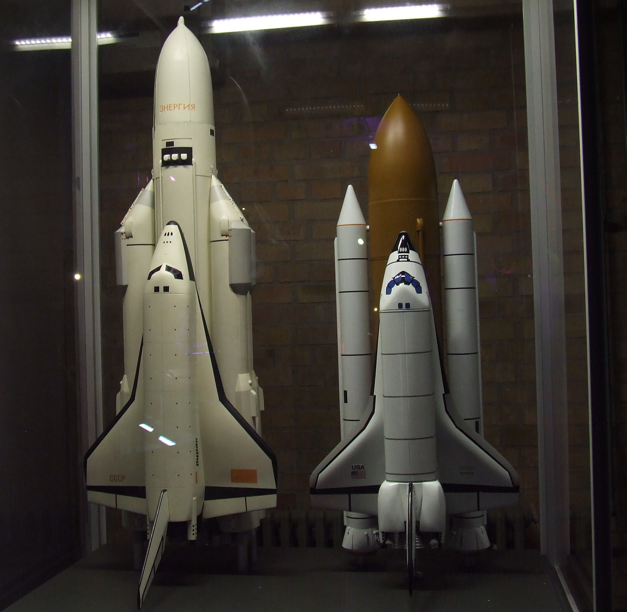 Gateway to Space 2016, Budapest. Model comparison between Energia-Buran and Space Shuttle system.